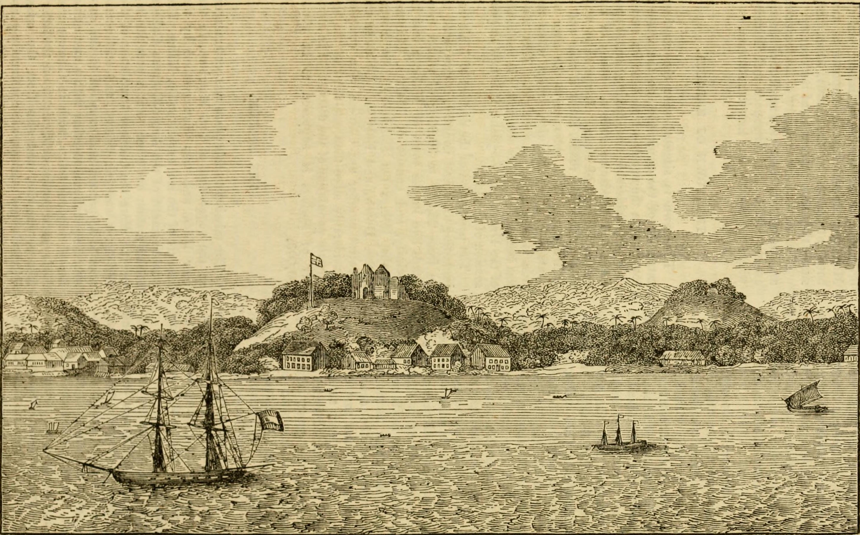 'Malacca' in 1831. Image from the cover of Missionary Sketches no. LIV, July 1831.